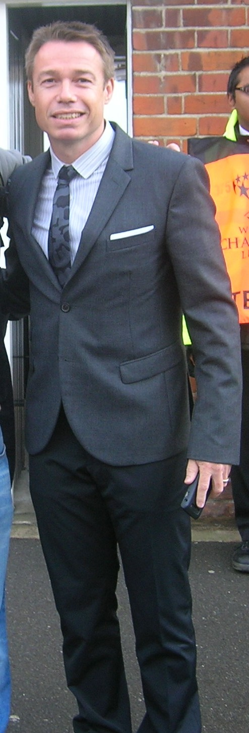 football player Graeme Le Saux.